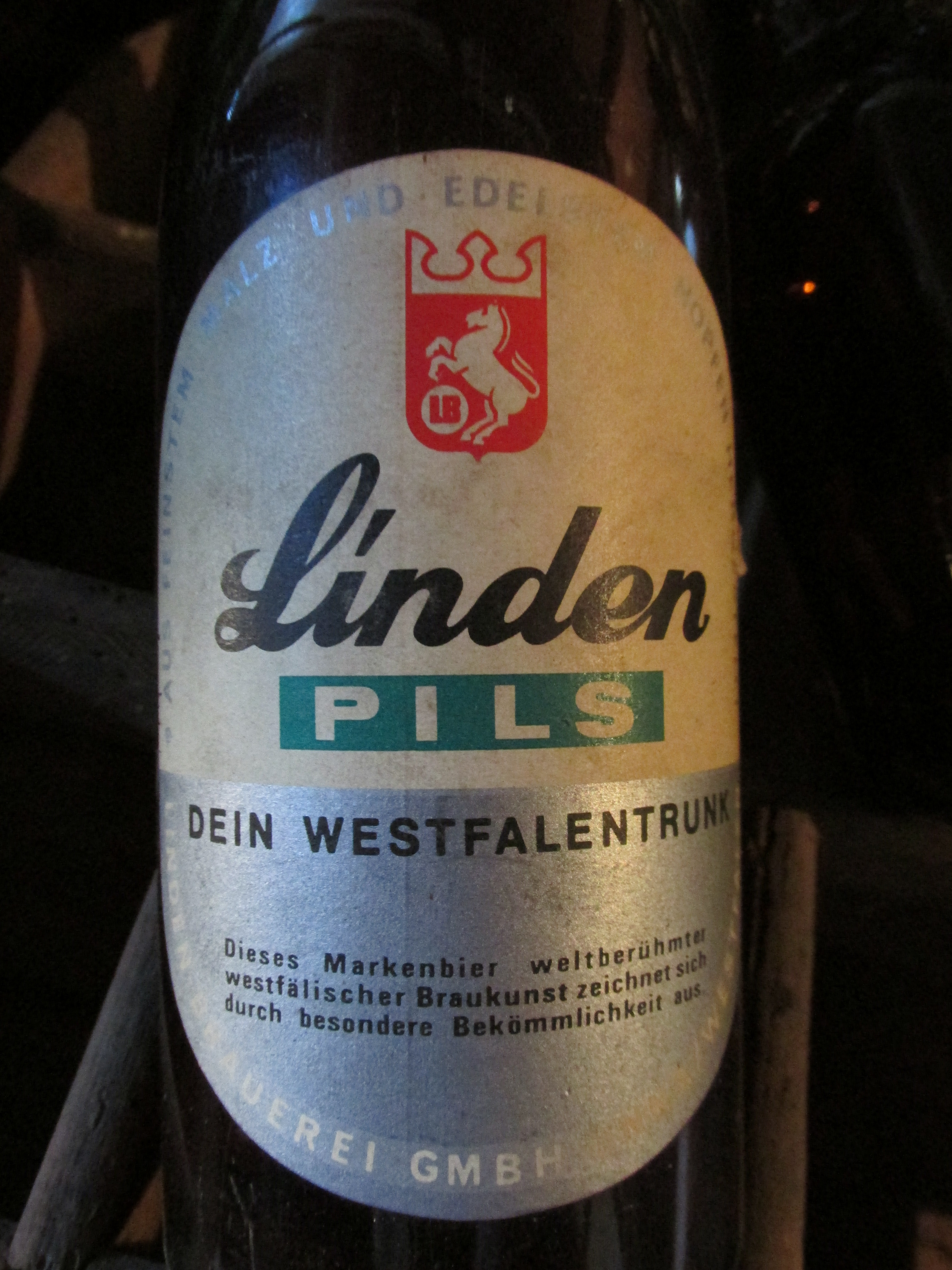 Label of Linden-Pils Unna check usage